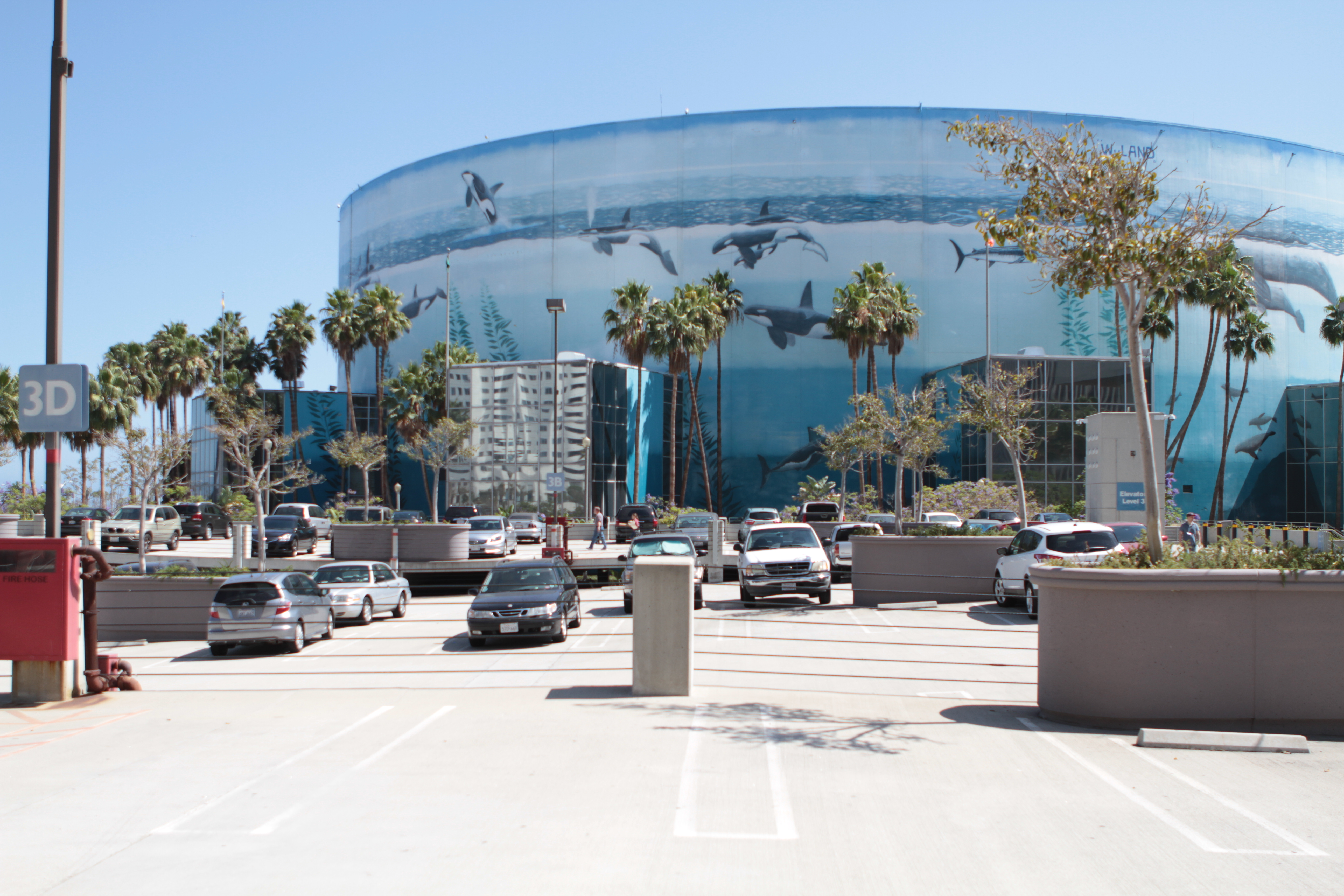 Long Beach Convention Center, site of the Long Beach Comic Expo at the time this picture was taken.